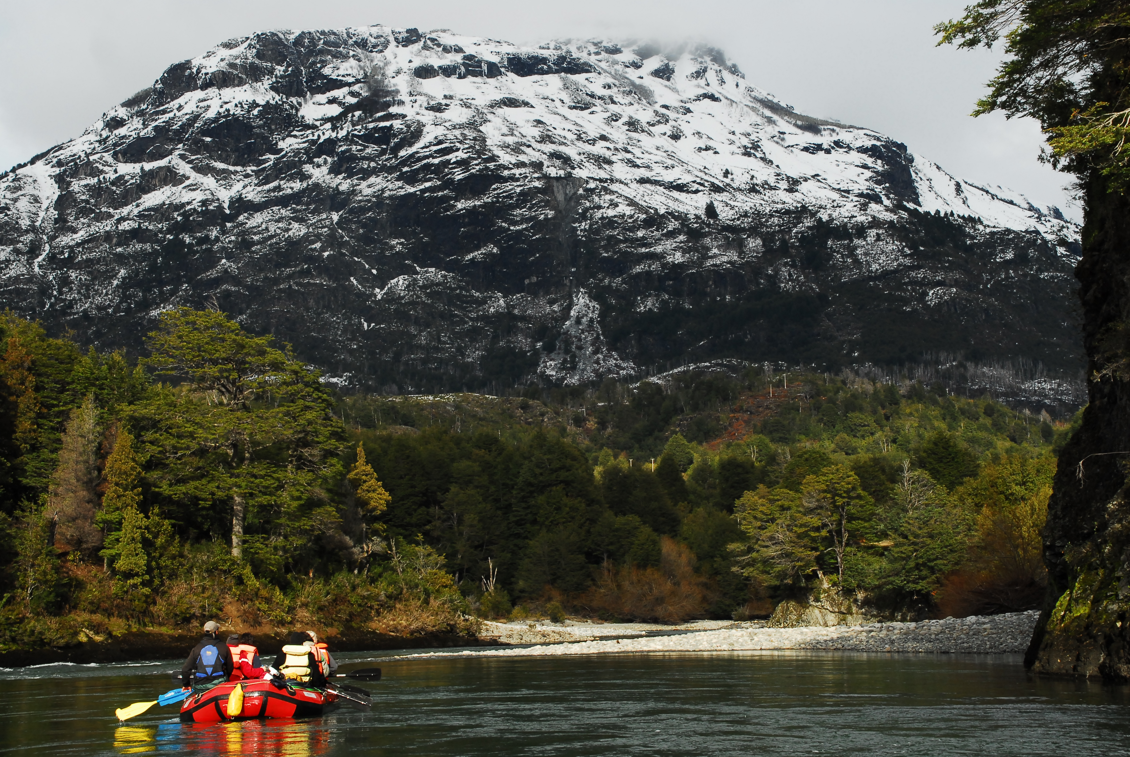 Palena River, Chilean Patagonia, South America